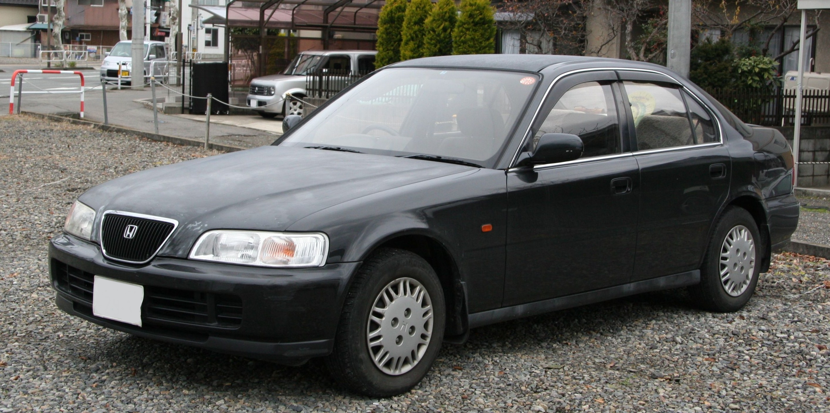 Honda Ascot